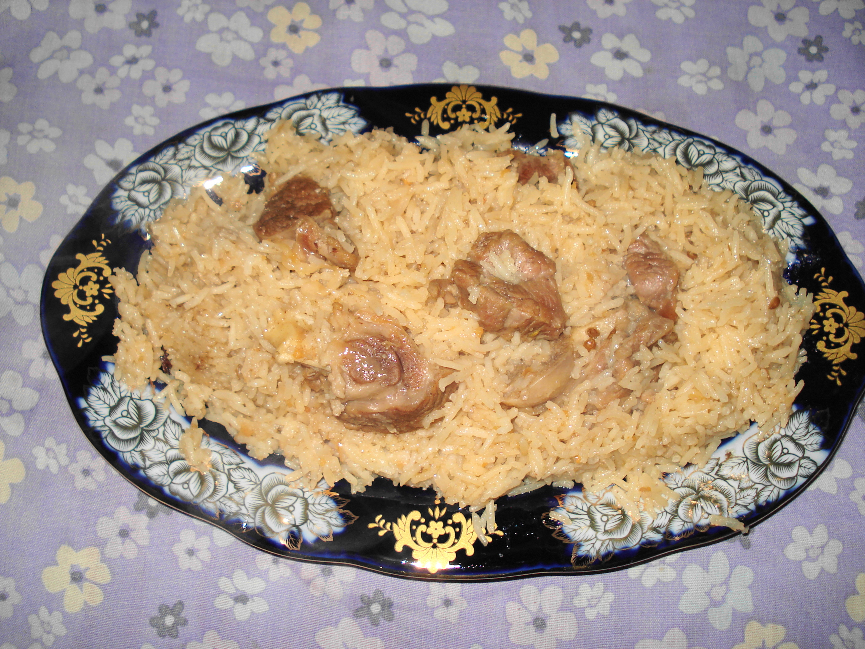 Punjabi pullao is a traditional dish of Punjab, Pakistan. It's also known as yakhni pullao.